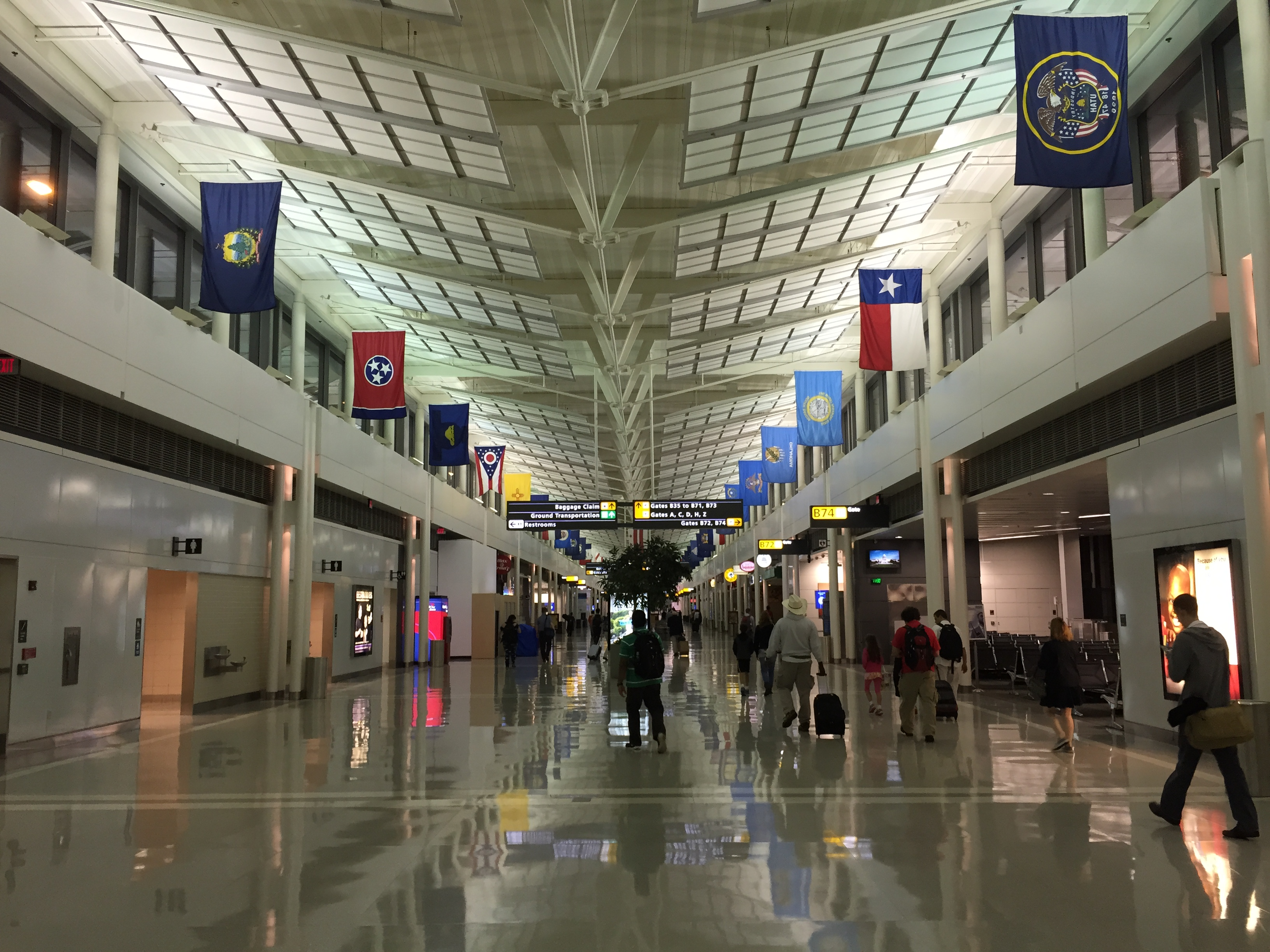 Concourse B at Washington Dulles International Airport in Virginia